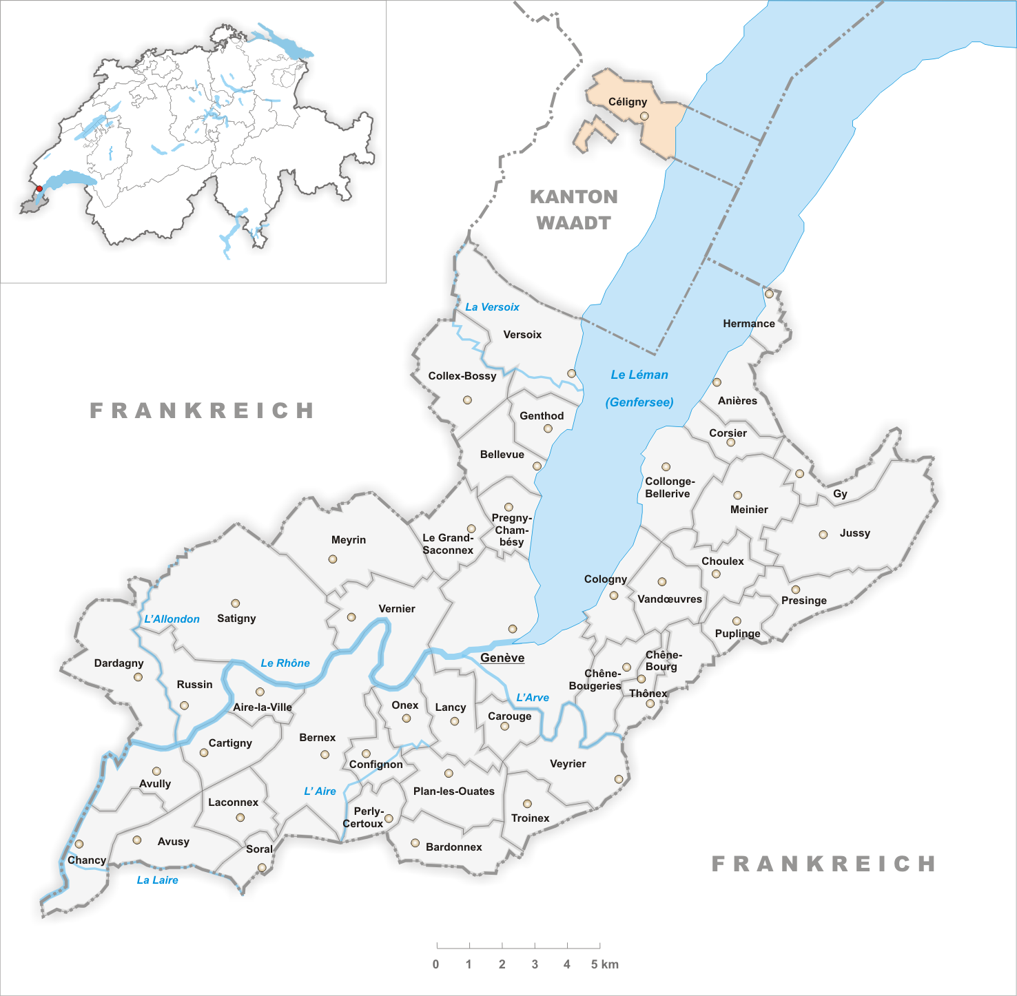 Municipality Céligny